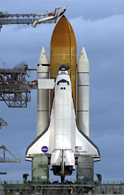 The Beanie-Cap lifts in order to clear the path for the STS-103s External Tank